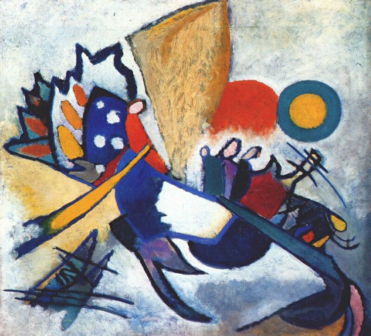 Improvisation 209